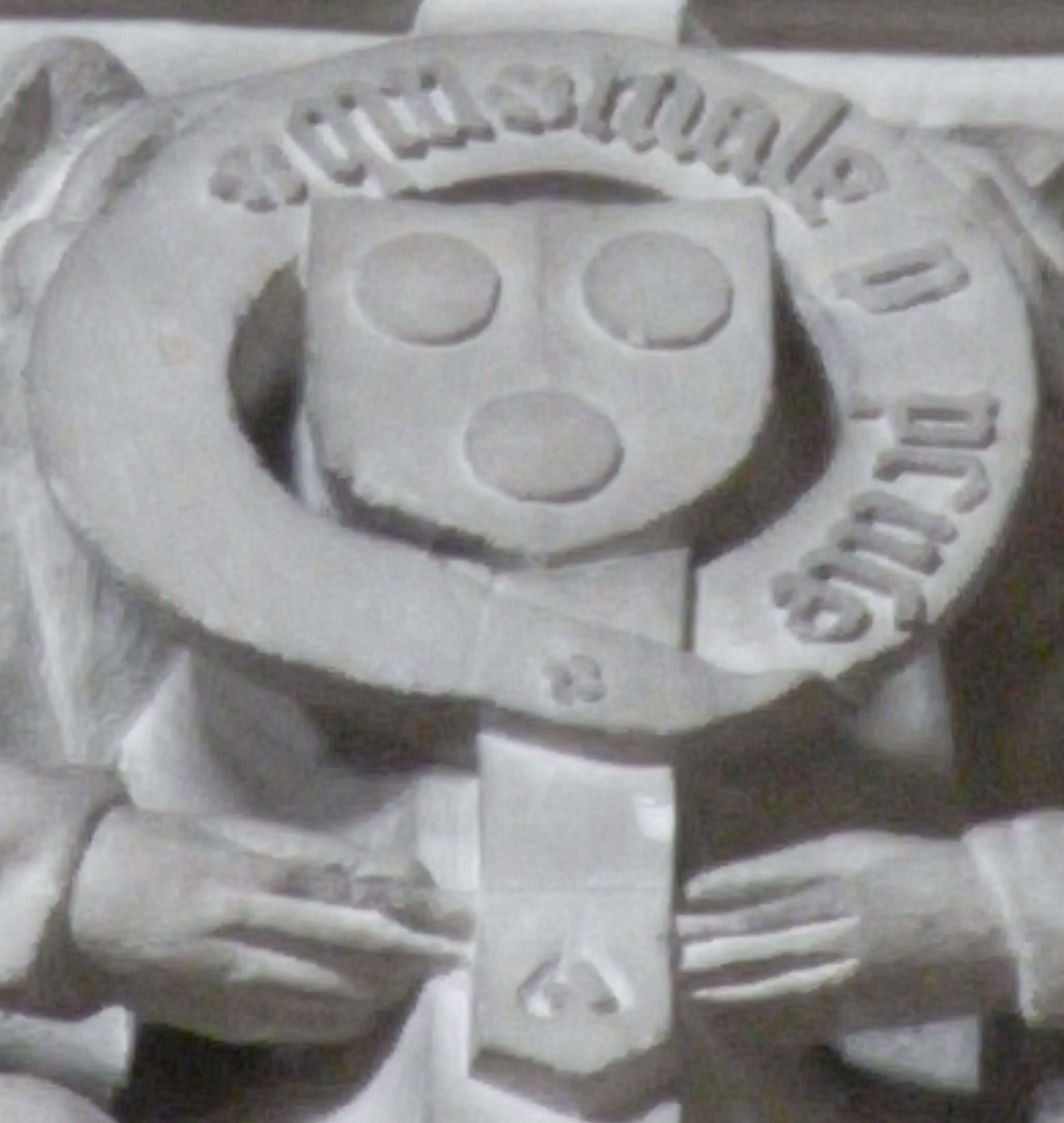 Within a Garter inscribed (honi soit) qui male y pense an escutcheon of the arms of Edward Courtenay, 1st Earl of Devon (d.1509), Knight of the Garter: Or, three torteaux, one of a pair facing each other on tops of chancel arch, each with a pair of kneeling angel supporters, St Peter's Church, Tiverton, Devon, situated next to Tiverton Castle, ancient seat of the Earls of Devon.